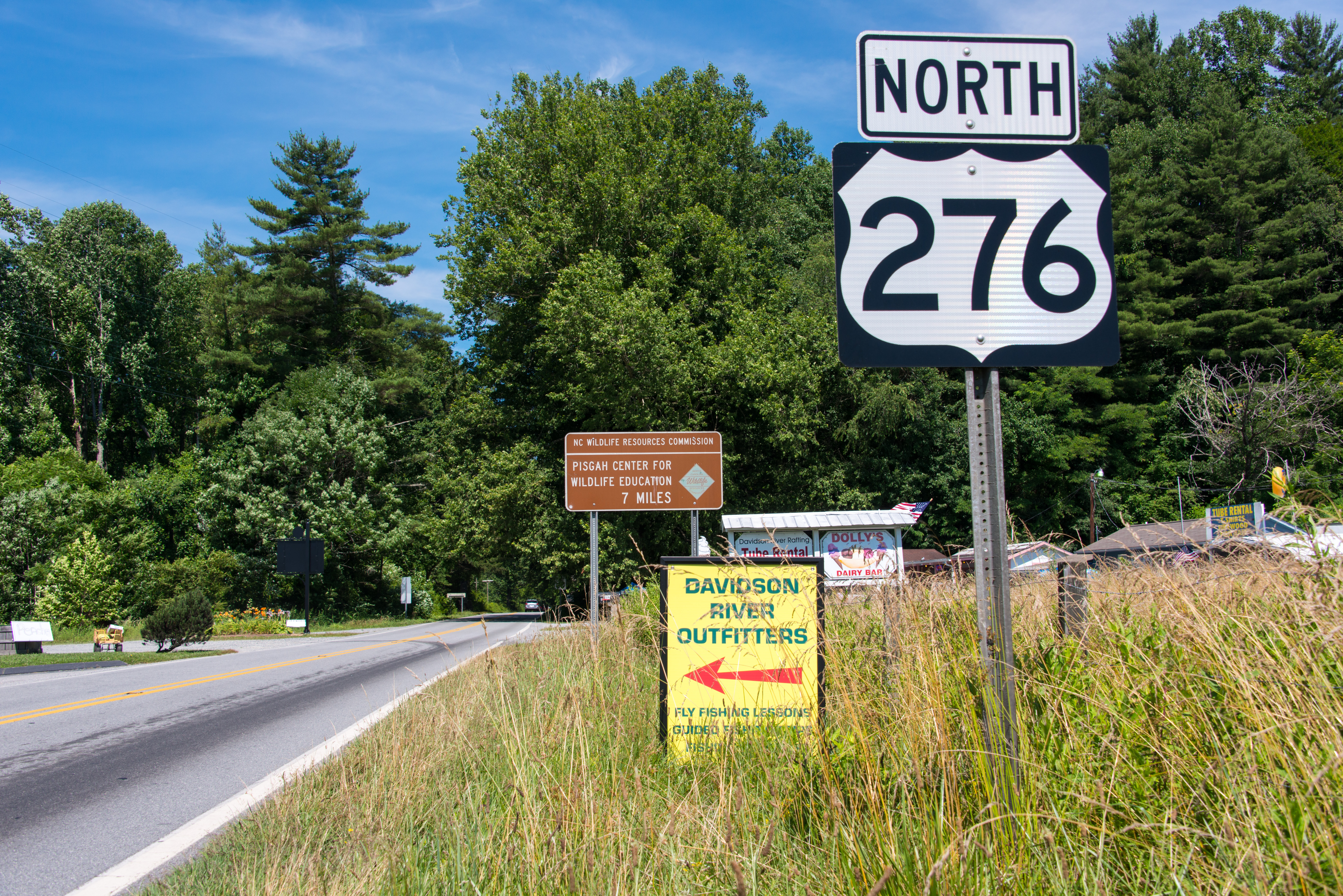 Northbound US 276, along the Pisgah Highway, towards the Pisgah Center for Wildlife Education and eventually Waynesville.